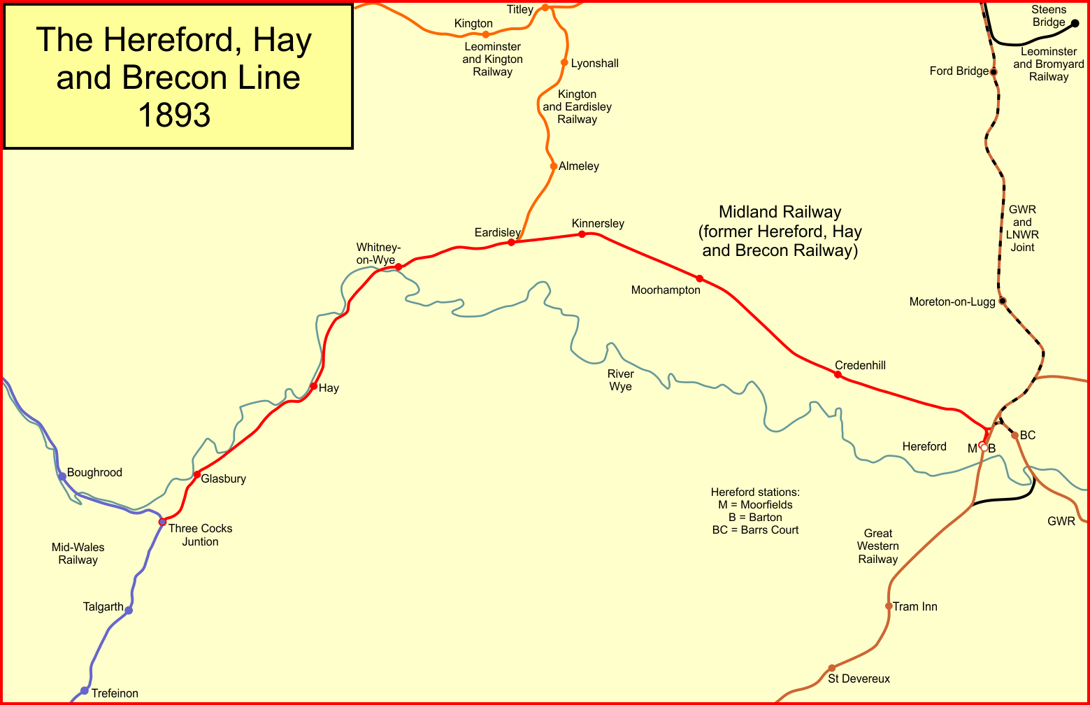 System map of the Hereford, Hay and Brecon Railway, in England and Wales, in 1893